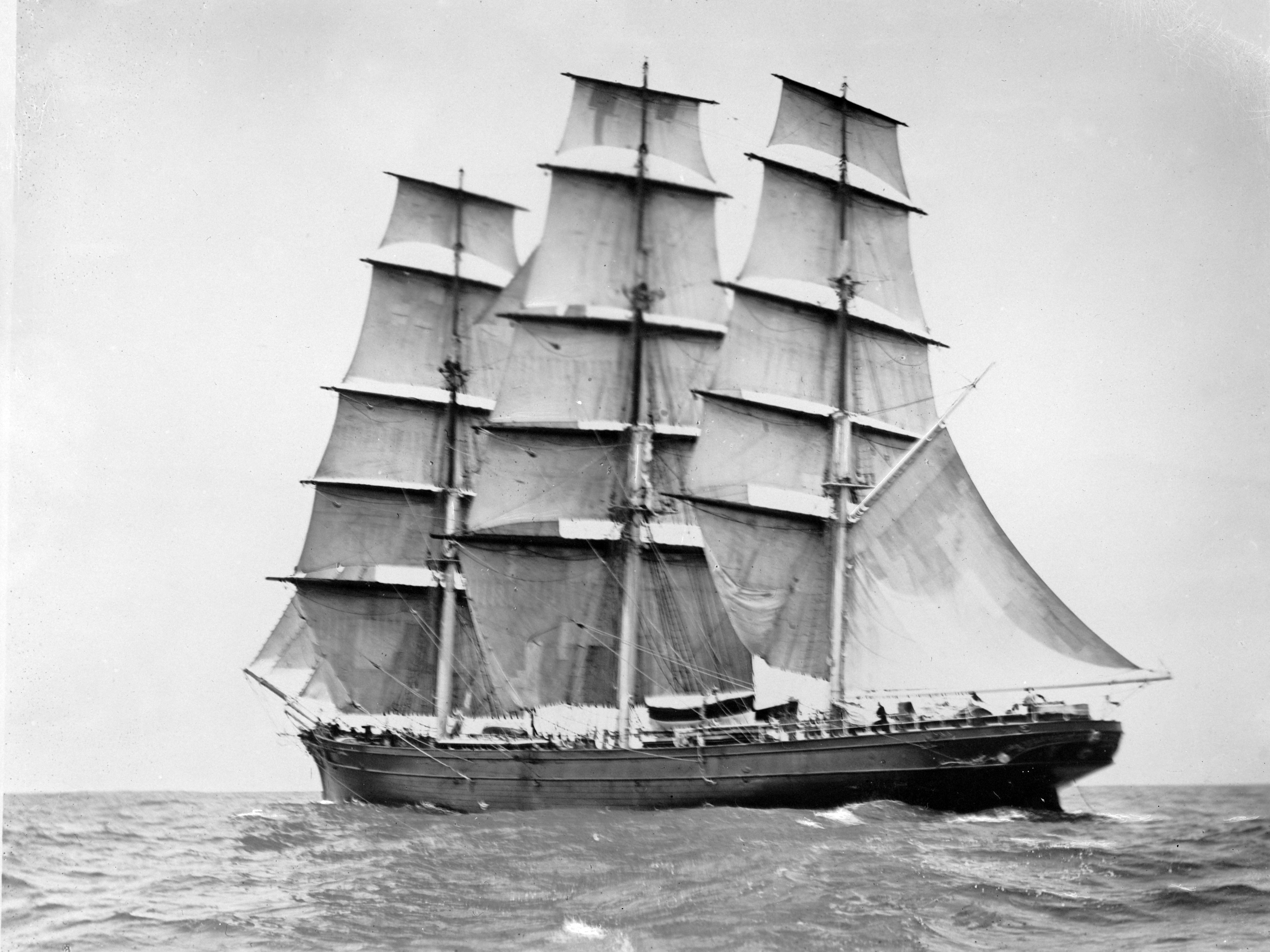 The clipper "CUTTY SARK" in full sails.